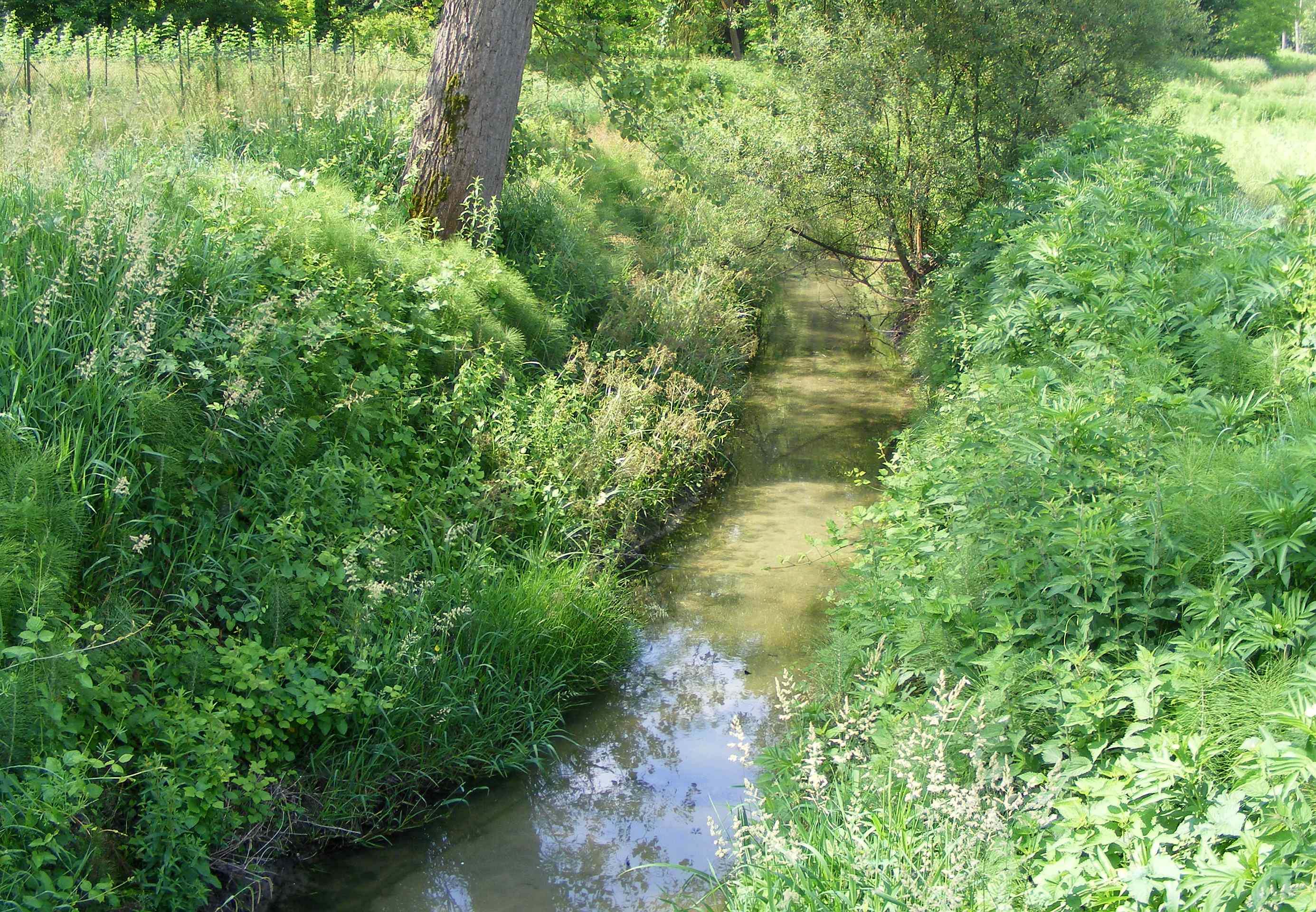 Rio Meina in Gallareto (Cerreto d'Asti, AT, Italy)